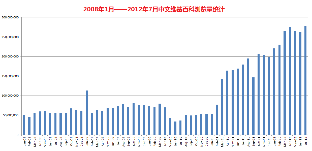 zh wikipedia stats (page view)